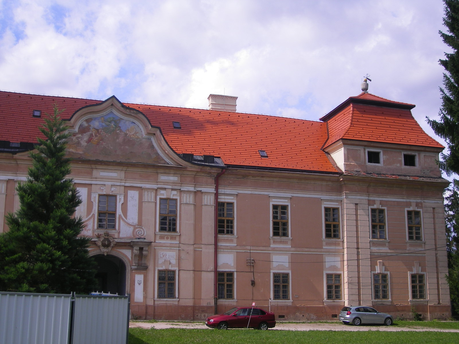 Jasov - abbey